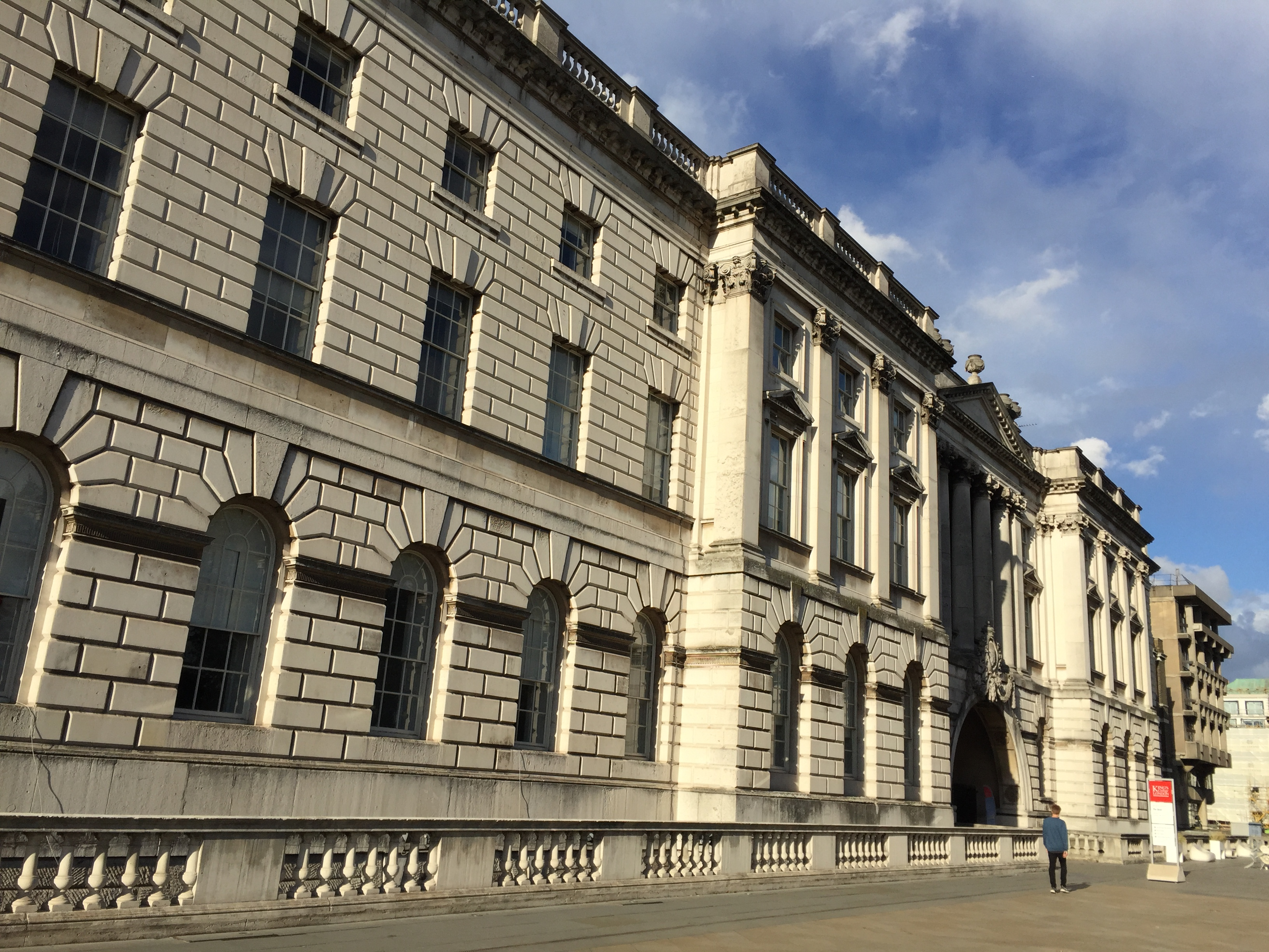 King's College London, embankment facade, strand campus